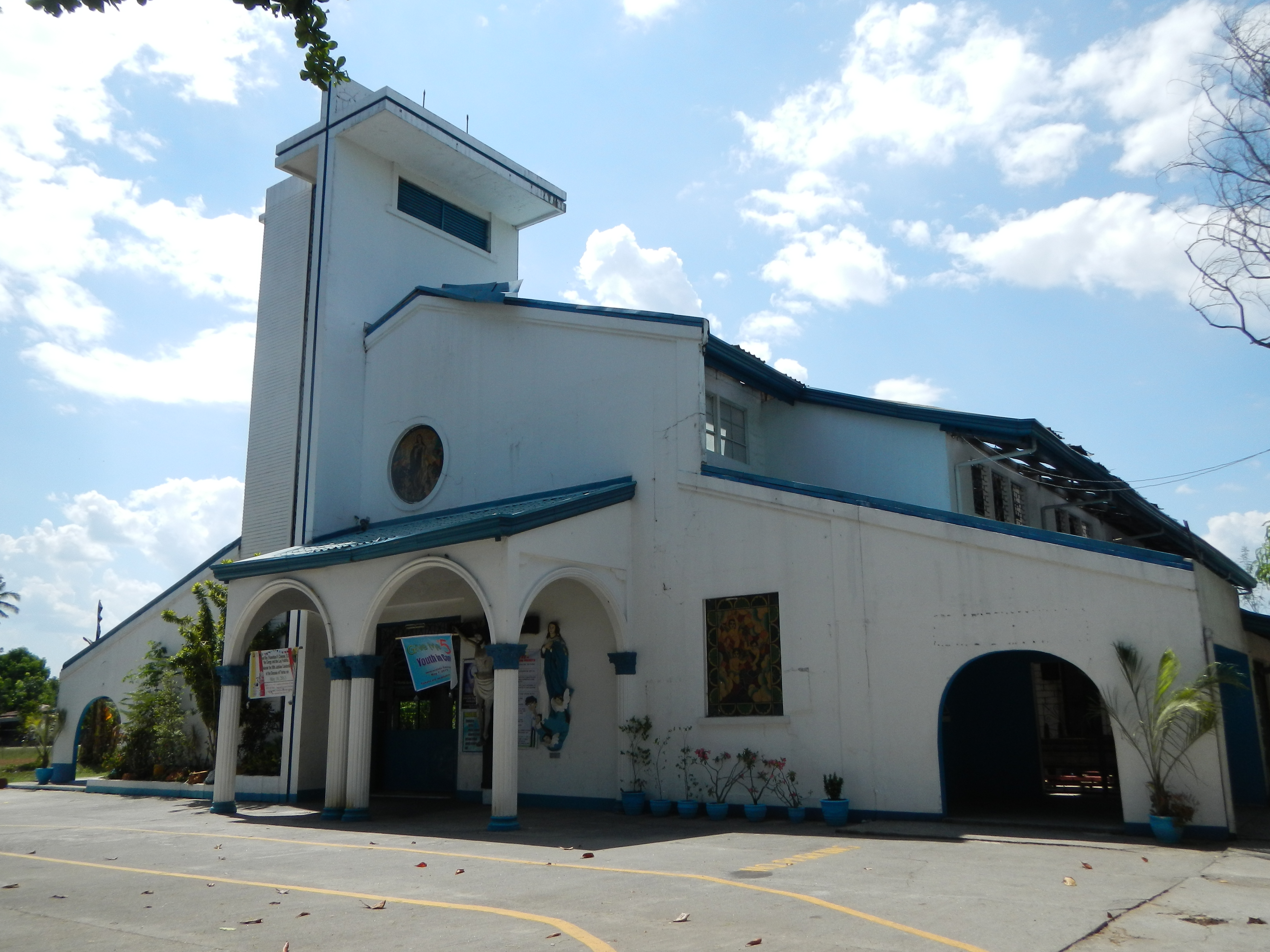 (F-1772) Immaculate Conception Parish Church of Victoria - Victoria,[1] 2313 Tarlac, Philippines Titular: Immaculate Conception, December 8 Parish Priest: Father Vely Lapitan Parochial Vicar: Father Arnulfo Corpuz Vicariate of Immaculate Conception Vicar Forane: Father Vely Lapitan [2] [3] Roman Catholic Diocese of Tarlac[4] Victoria, Tarlac[5] is a second class municipality in the province of Tarlac, Philippines. According to the 2010 census, it has a population of 59,987 people. The municipality is located in the Province of Tarlac, geographically located in the central part of Luzon. It lies between 1”42’ north latitude and 120º35’ and 120”45 east longitude. It is bounded by Tarlac City, municipalities of Pura Gerona, La Paz and to the east by the Province of Nueva Ecija. The municipality has a total land area of 11,150 hectares, of which a large portion is used for agricultural activities.New Website [6]Land Area: 111.51 km² ZIP Code: 2313 Coordinates: 15°34'34"N 120°41'25"E[7] This place is situated in Tarlac, Region 3, Philippines, its geographical coordinates are 15° 34' 39" North, 120° 40' 56" East and its original name (with diacritics) is Victoria.[8]PNOC-EDC to drill more wells in Victoria, Tarlac March 20, 2002 [9]VICTORIA, FIRST TO ESTABLISH TSU – CAMPUS OFF – TARLAC CITY ----- By 1850 there were already settled communities in what would later be called the town of Victoria. The biggest was in Namitinan (now in Sitio in Brgy. Canarem) which was of Ilocano settlers who decided to live close to Canarum Lake. The Kapampangan had gone as far as Baculong and Maluid. Like the Ilocano, they too were in search of land to till. There was one other community in Palacpalac. The barrio was named after a tree which sap is utilized to make houses shiny. On March 28, 1855, Superior Governor General Miguel Crespo created the town of Victoria by virtue of a Superior Decree. There was no Poblacion to speak of then. Read more:[10]